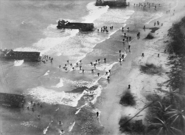 Farida Force, an ad hoc Australian military formation, landing at Dove Bay near Wewak, in 1945